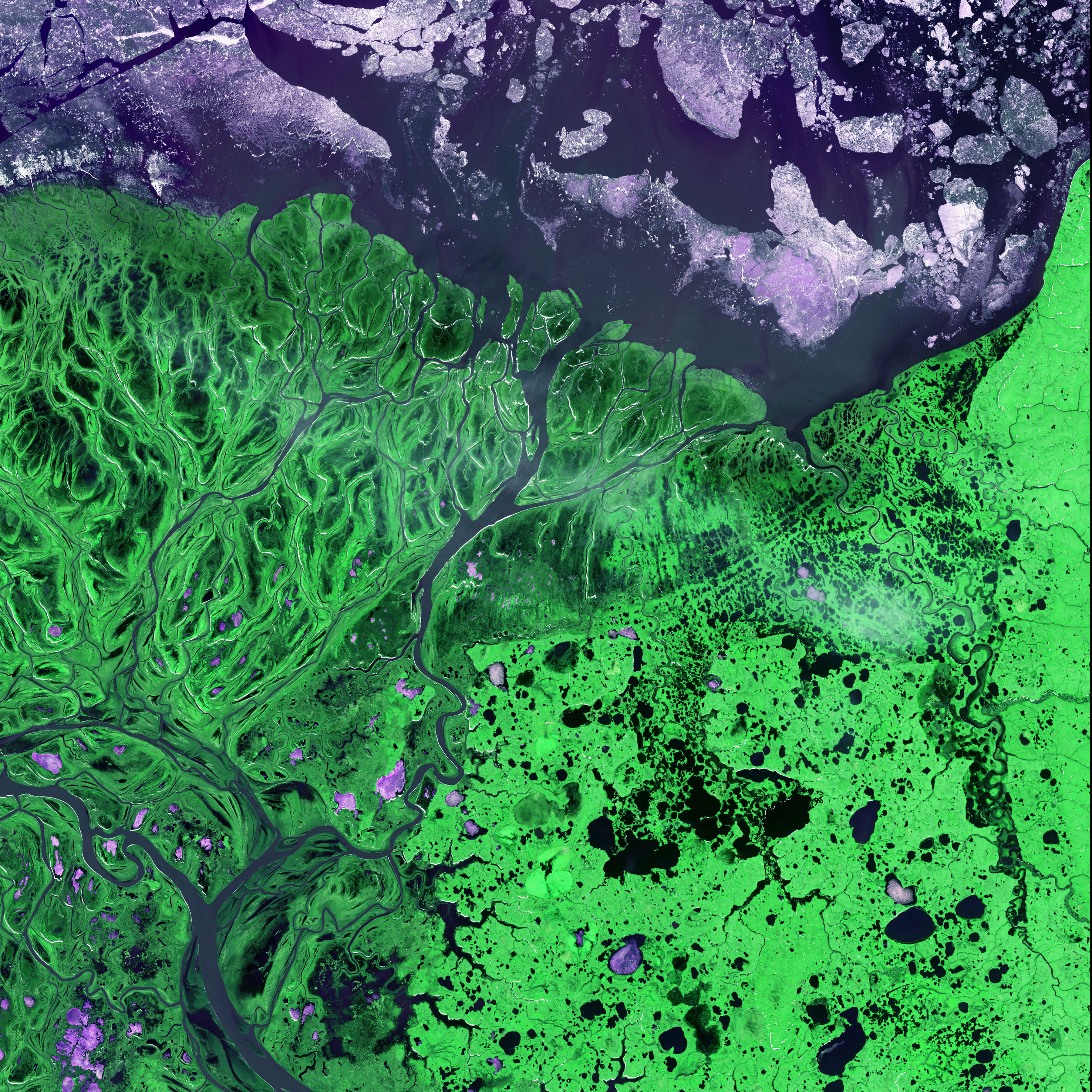 False-color satellite image of the Yukon Delta, Alaska, USA.